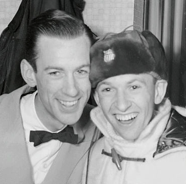 1956 Press Photo Hayes Alan Jenkins & David Jenkins sports winner - neo22976